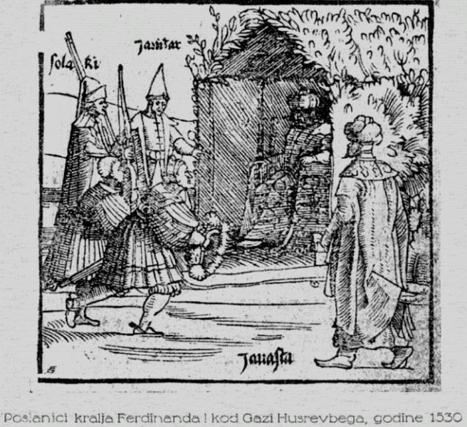 Habsburg delegation of Ferdinand I, Joseph Freiherr von Lamberg and Nikola Jurišić, meeting with Gazi Husrev-beg. He is credited as an effective military strategist, as well as the greatest donor and builder of Sarajevo. By, Benedikt Kuripečič, 1530.